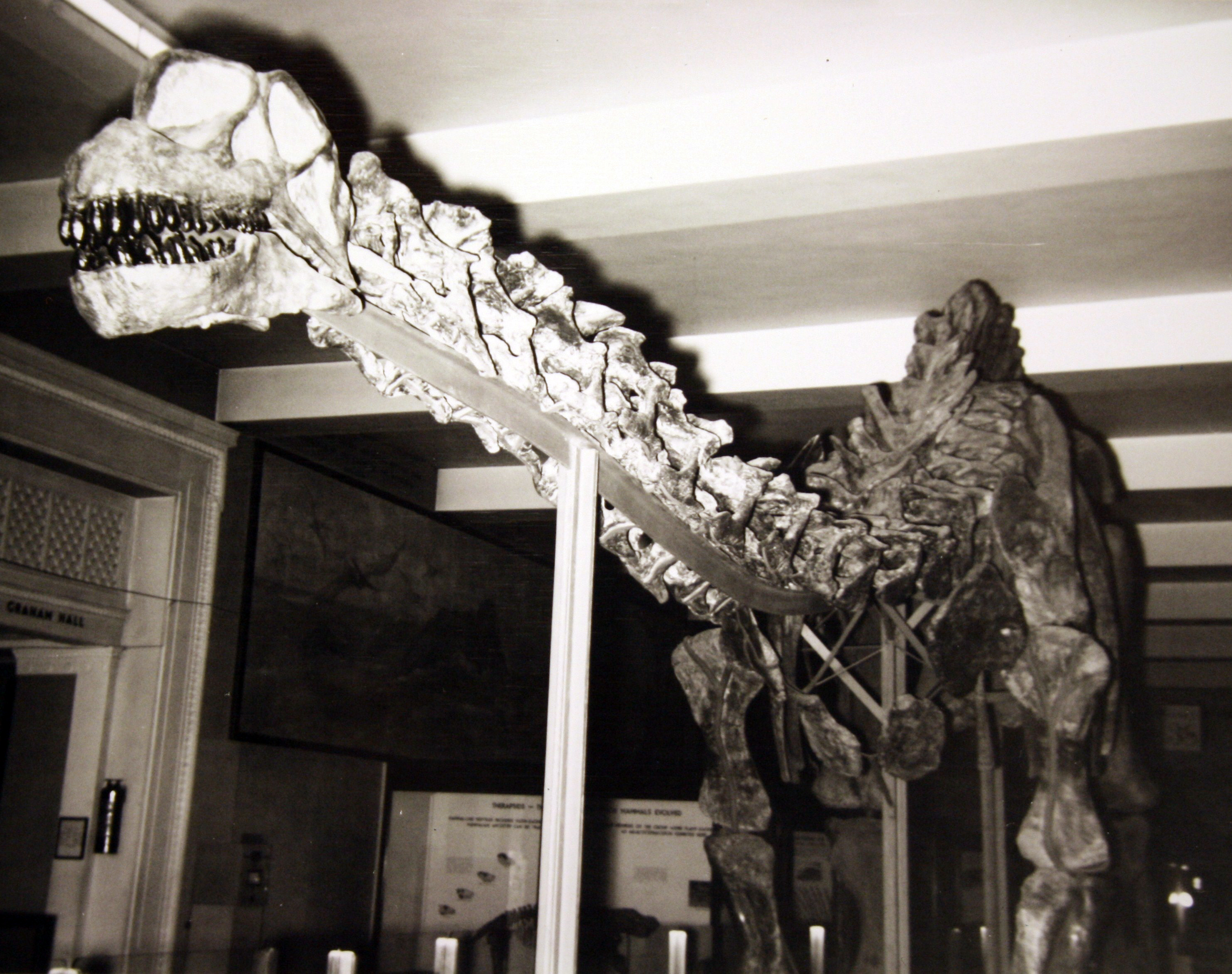 Field Museum of Natural History, Chicago, Illinois, digital copy of print, late 1950s. Complete indexed photo collection at .